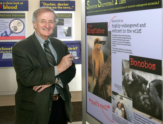 Dr Harry Prosen is presented an award recognizing his contribution as psychiatric consultant to the bonobos at the Bonobo Species Preservation Society, Milwaukee County Zoo.